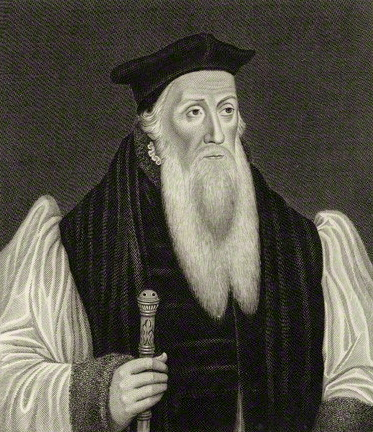 Richard Cox (c1500-1581)